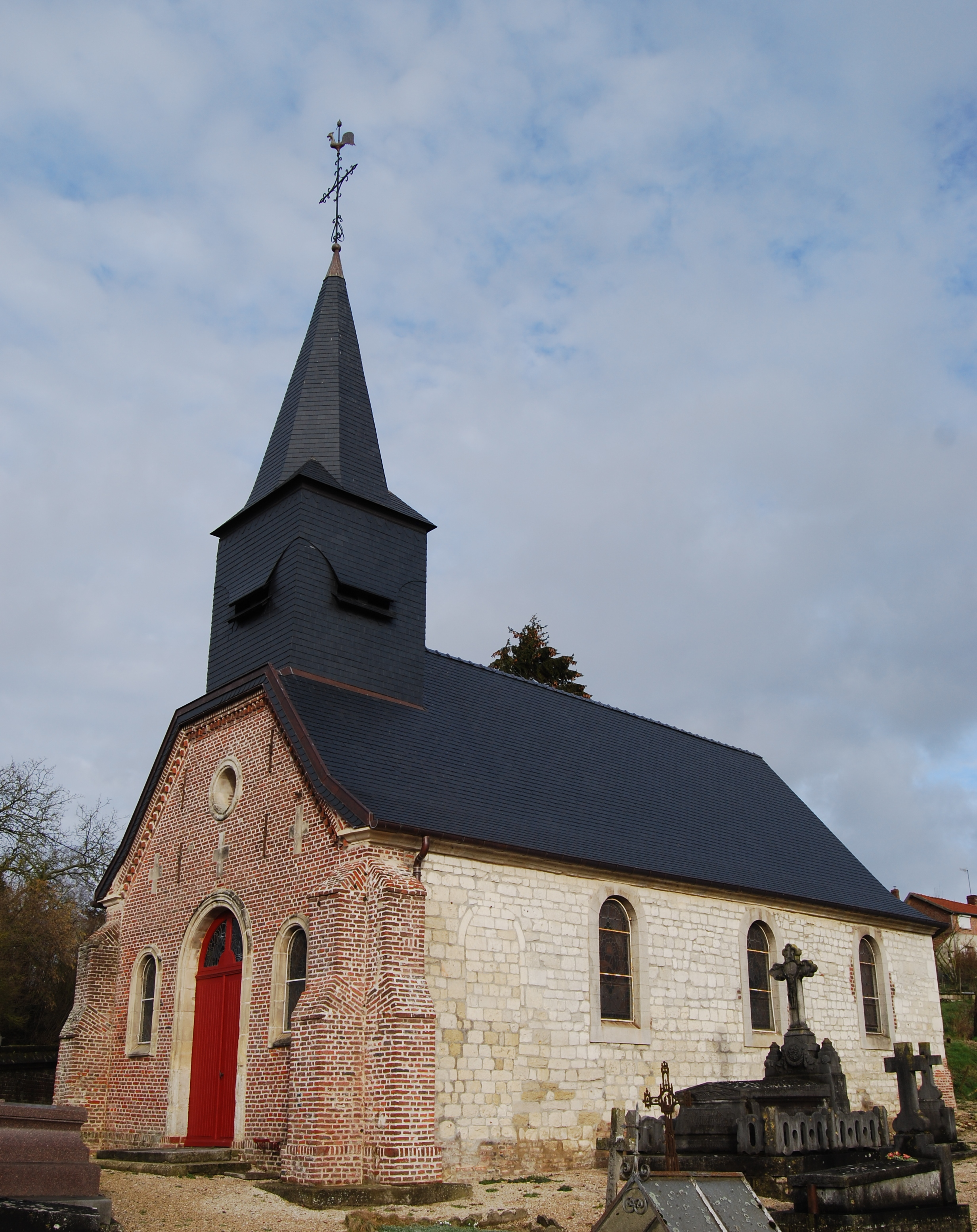 Church Saint-Martin from Thiernu (Aisne, Picardie, France)